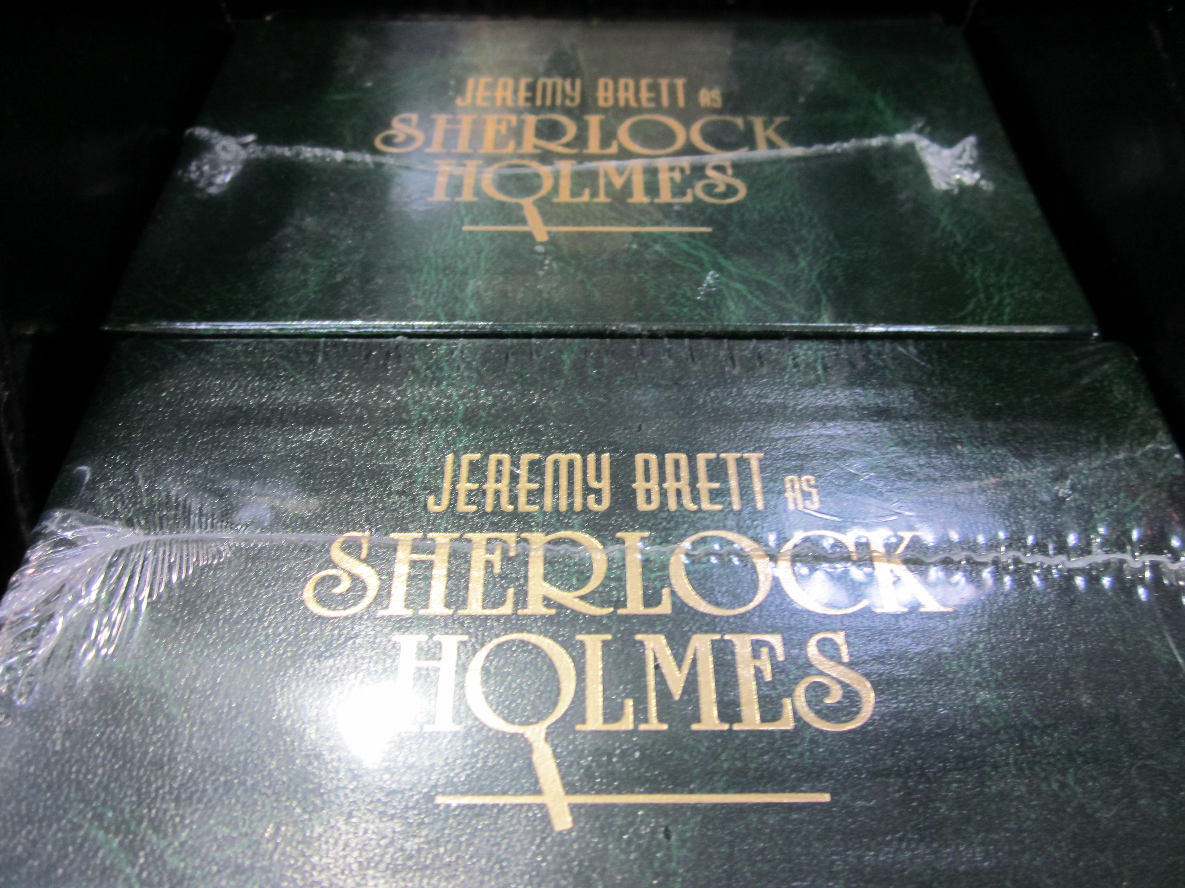 The Adventures of Sherlock Holmes starring Jeremy Brett DVD box sets at Costco in South San Francisco, California on El Camino Real.